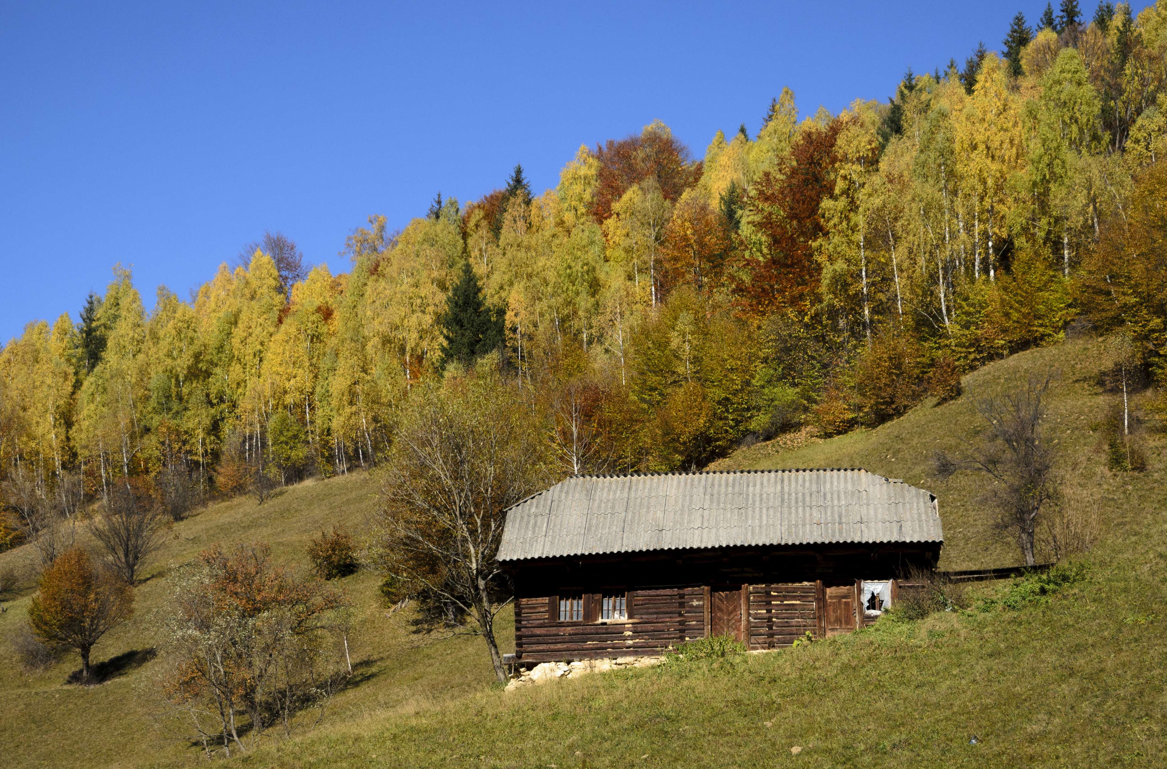 Peștera, Romania